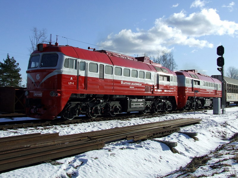 Diesel lokomotive 2M62 0490 in Lithuania.